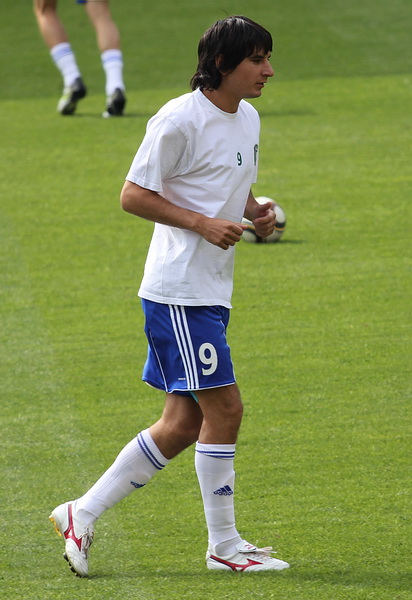 Sergey Kovalchuk